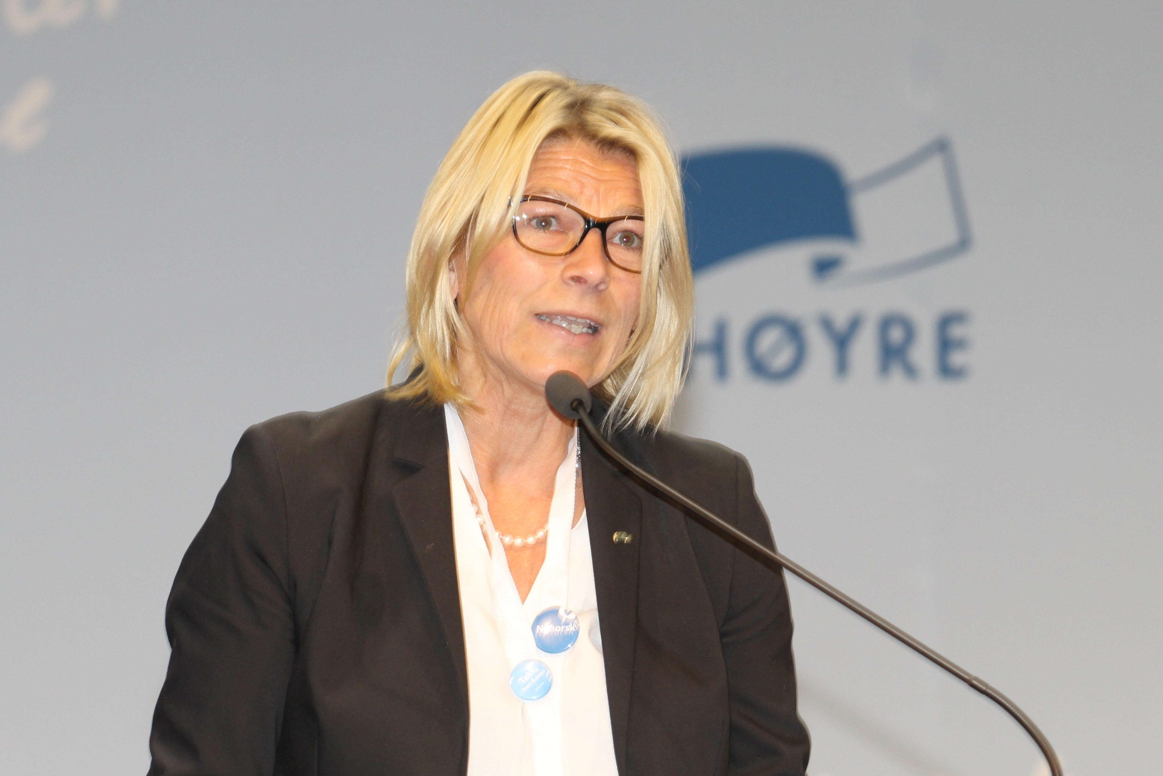 Solveig Sundbø Abrahamsen